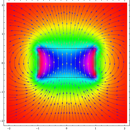 a stream line and field density plot of a solenoid field with radius 1 and length 1. the solenoid size was shown on the box. the field density is rainbow color, the lowest value is red then orange, and so on. this plot is created by the analytic formula. so, it is complete and no approximation.